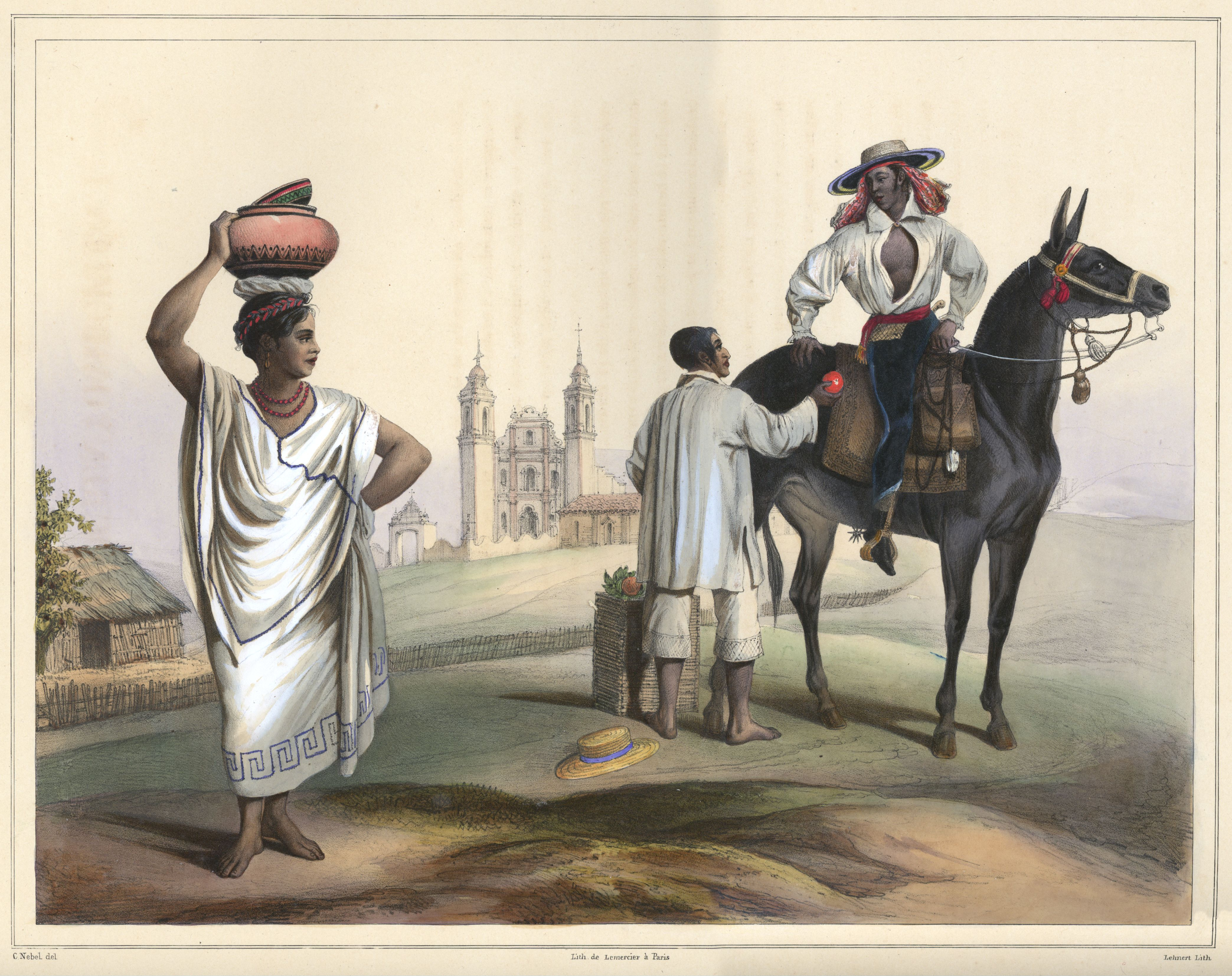 Gente de Tierra Caliente entre Papantla y Misantla. Costume group. Hand-colored lithograph highlighted with gum arabic. Original size (neat lines): 34.7×26.6 cm.